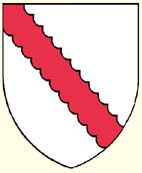 Armourials of Robert Walerand ("Walran"), Glovers Roll: "d'agent od un bend engrele de gules" (Argent, a bend engrailed gules)